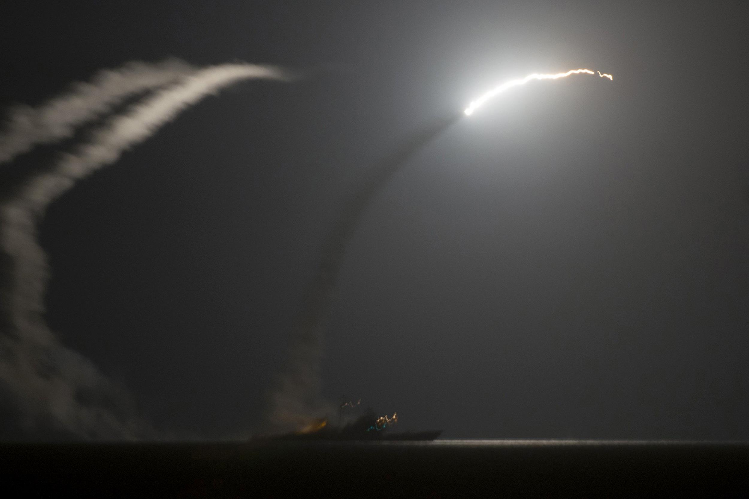 Photo shows Tomahawk missile being fire from the USS Philippine Sea and the USS Arleigh Burke at IS targets